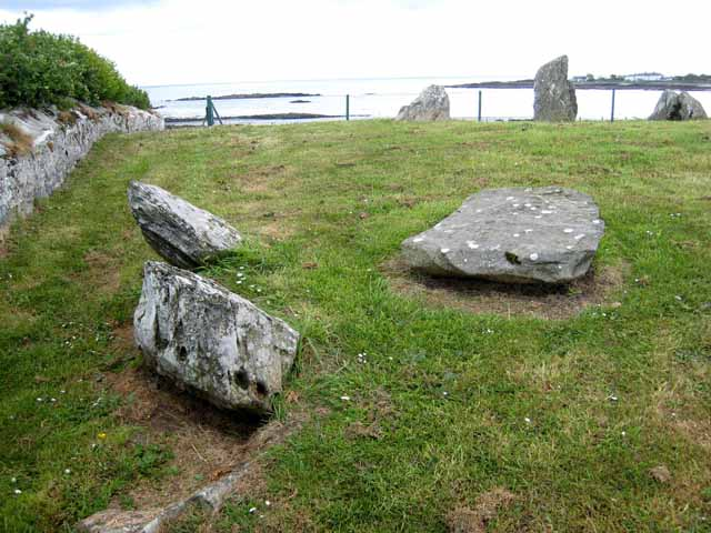 Millin Bay Cairn A late Neolithic burial cist, dating back at least 4000 years. Excavated in 1953, but now restored to a grassy mound with a few stones sticking out.